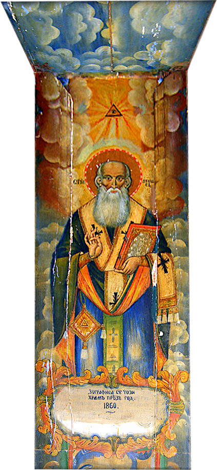 St. Athanasius Gorna Ribnitsa